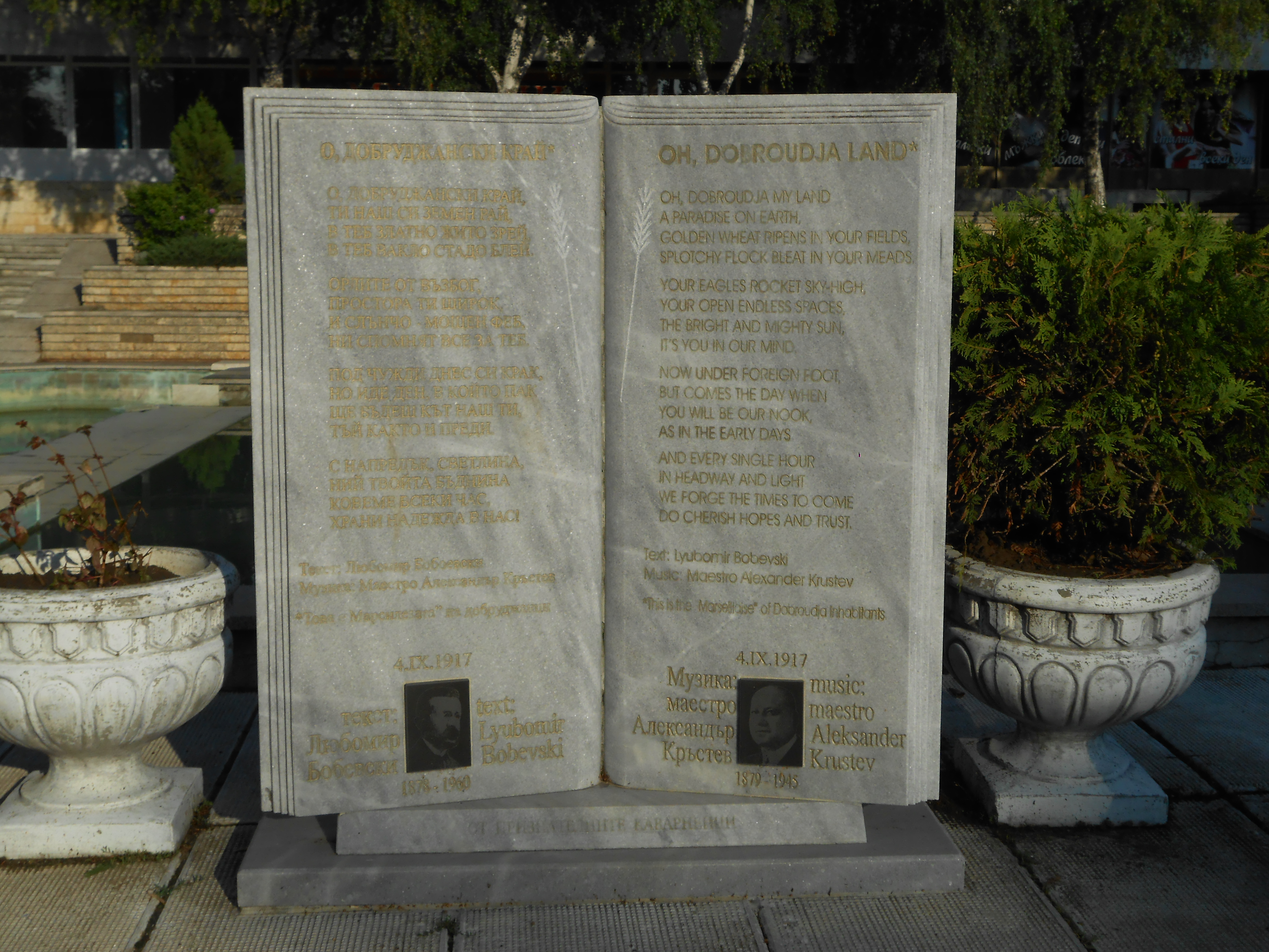 Monument in Kavarna, Bulgaria to the march "Oh, Dobrouja land" of Lyubomir Bobevski (poet) and Aleksander Krustev (composer).